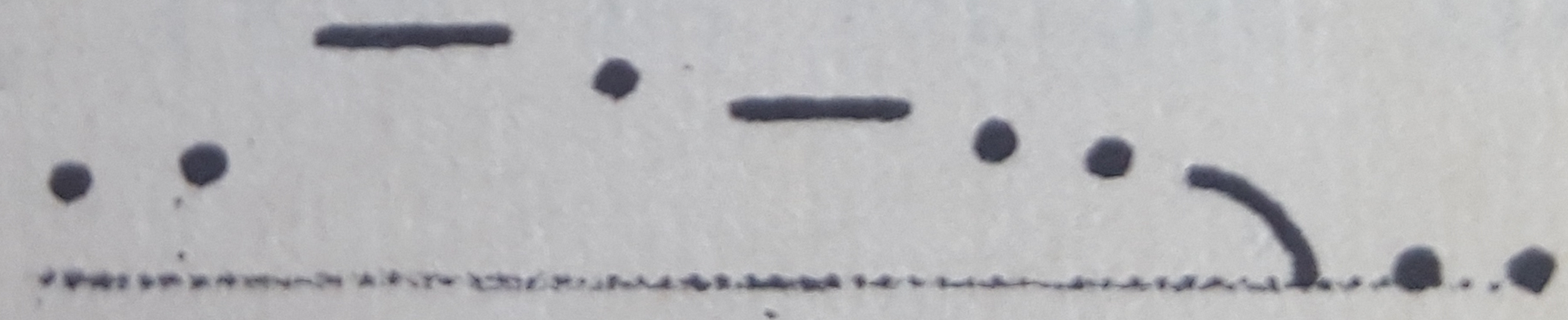 This is Armstrong and Ward (1931)'s notation for marking the intonation of the statement "He's a very wonderful pianist". It is an example of "Tune 1".